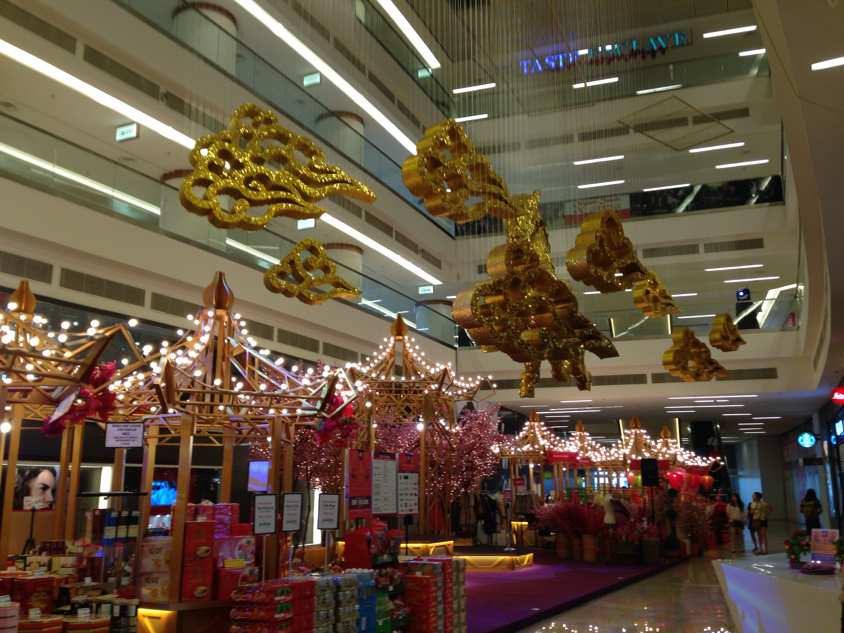 Avenue K Chinese New Year Decoration in 2014